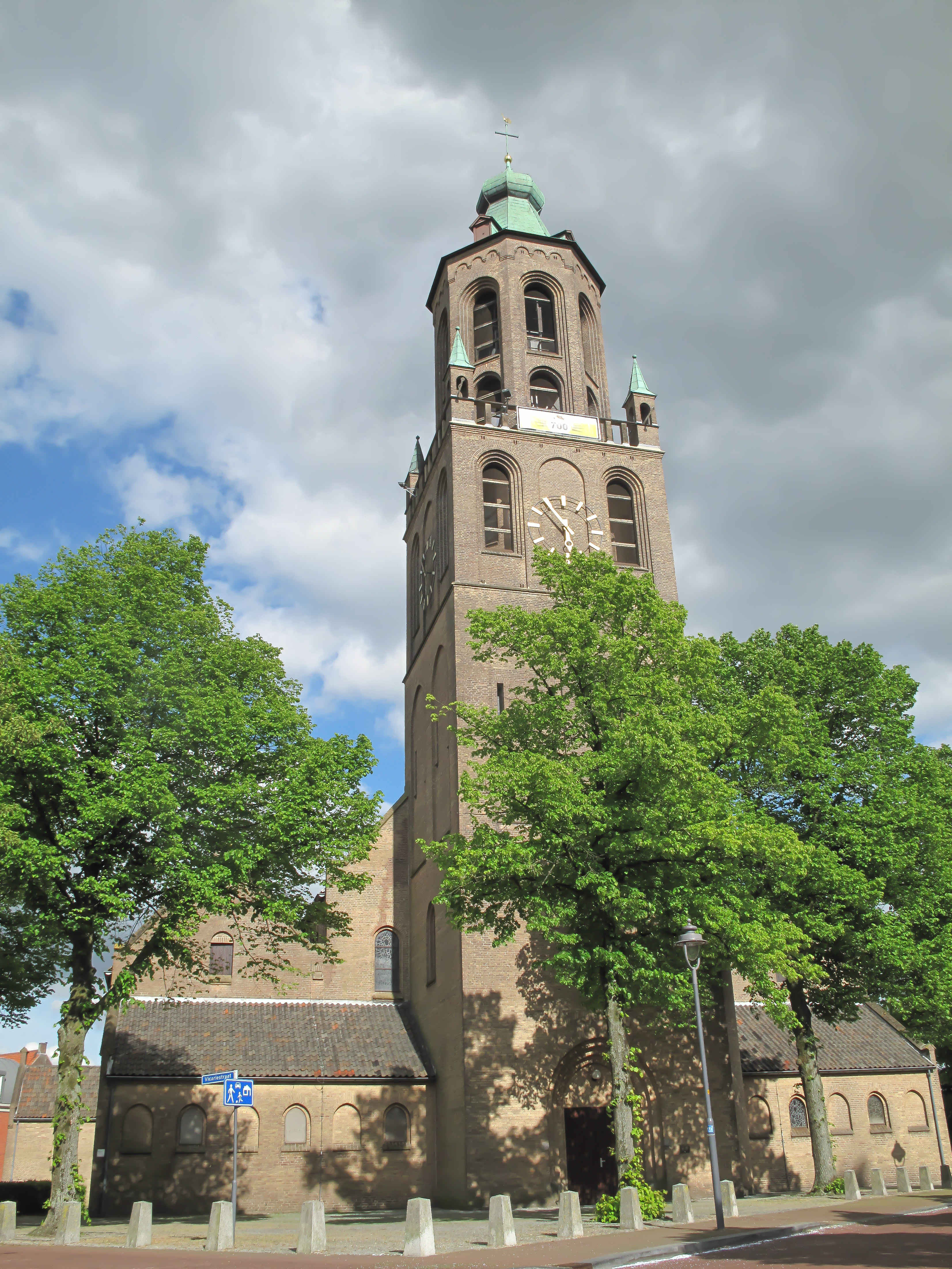 Huissen, church: de Onze Lieve Vrouwe Ten Hemelopnemingskerk